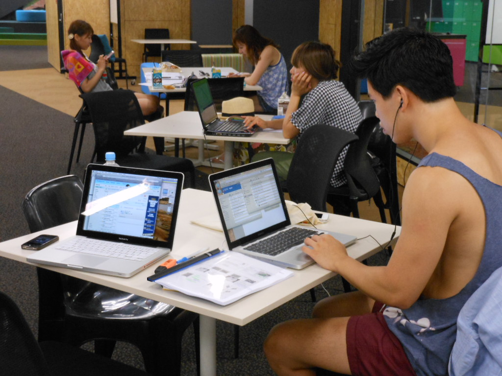 Laptop Study